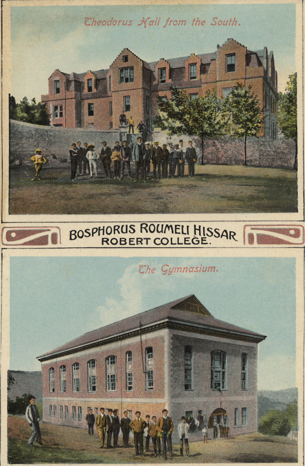 Robert College was founded in 1863 in İstanbul by Cyrus Haimlin and Christopher Robert. The school began its education program in the theology building of the American Missioners Commission. The first wing of the school was built with the same stones as those used in Rumeli Fortress and opened in 1871. The affiliated American Girls College was inaugurated in the same year in Arnavutköy and these two institutions became the first American educational institutions founded outside of the United States. In 1971, the college level of Robert College was converted to Boğaziçi University. The same year, Robert College merged with the American Girls College to continue its activities on the Arnavutköy campus. SALT Research, Photography Archive Robert Kolej 1863’te İstanbul’da açıldı. Cyrus Hamlin ve Christopher Robert tarafından kurulan okul, geçici olarak Amerikan Misyonerleri Heyeti’nin Bebek’te bulunan ilahiyat okulunun binasında eğitime başladı. Okula ait ilk bina, Rumeli Hisarı’nın yapımında kullanılan taş malzemeyle inşa edilerek 1871’de açıldı. Aynı yıl Robert Kolej ile kardeş okul olan Amerikan Kız Koleji Arnavutköy’de eğitime başladı. Bu iki kurum, ABD sınırları dışındaki ilk Amerikan okulları olarak tarihe geçti. 1971’de Robert Kolej’in yüksekokul bölümü Boğaziçi Üniversitesi’ne dönüştürüldü. Yine 1971’de Amerikan Kız Koleji ile birleşip karma eğitime geçen Robert Kolej ise, hâlen Arnavutköy kampüsünde eğitime devam etmektedir. SALT Araştırma, Fotoğraf Arşivi